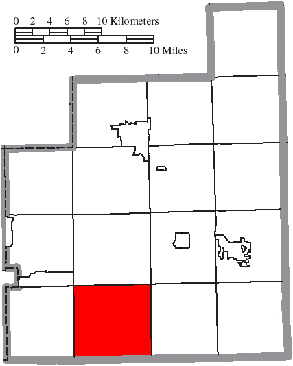 Map of the municipal and township boundaries of Geauga County, Ohio, United States, as of the 2000 census, with the location of Auburn Township highlighted. Township borders are shown only in unincorporated areas in order to differentiate incorporated and unincorporated areas more clearly.